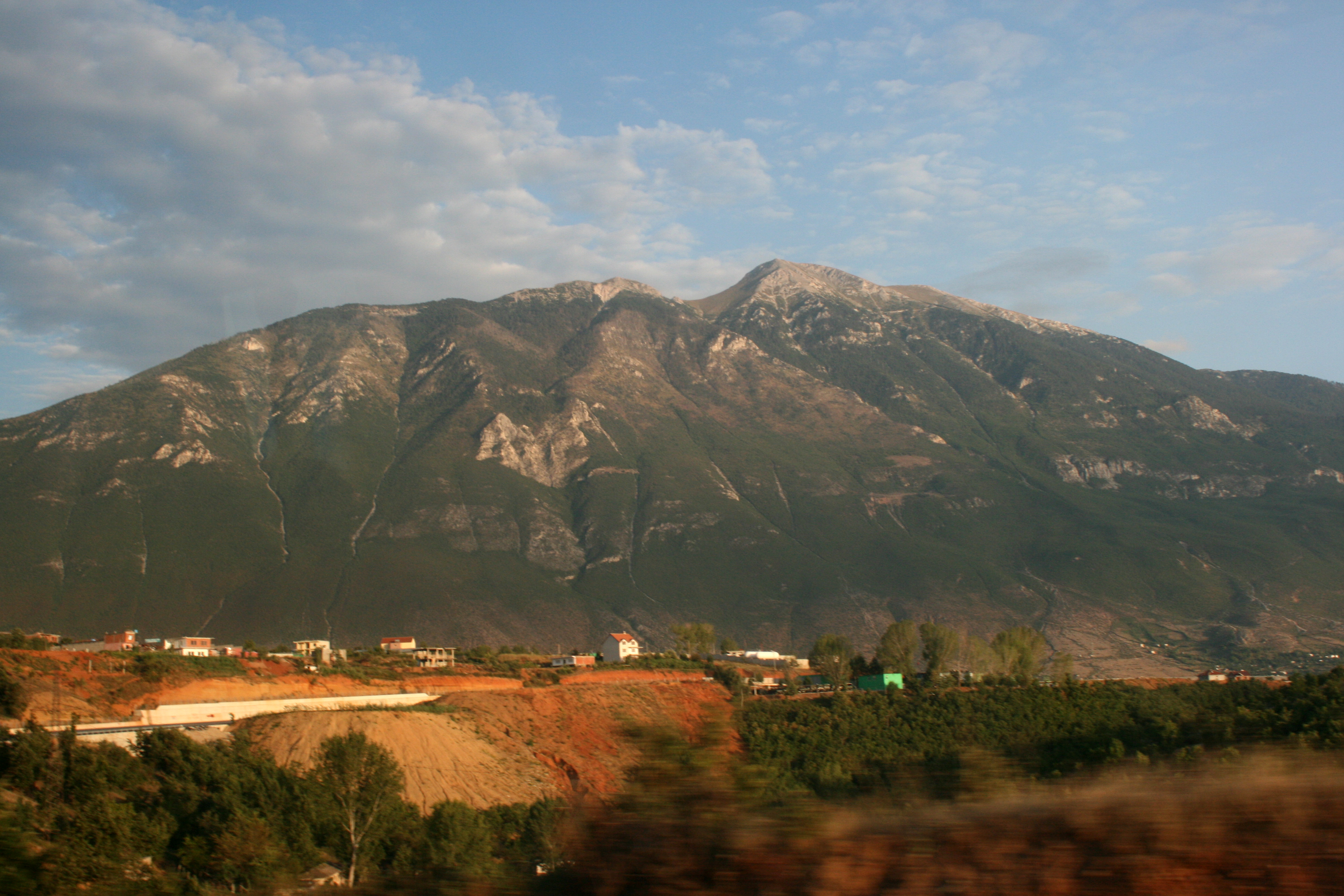 Gjallica Mountain